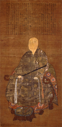 Portrait of Zen Master Kanzan Egen